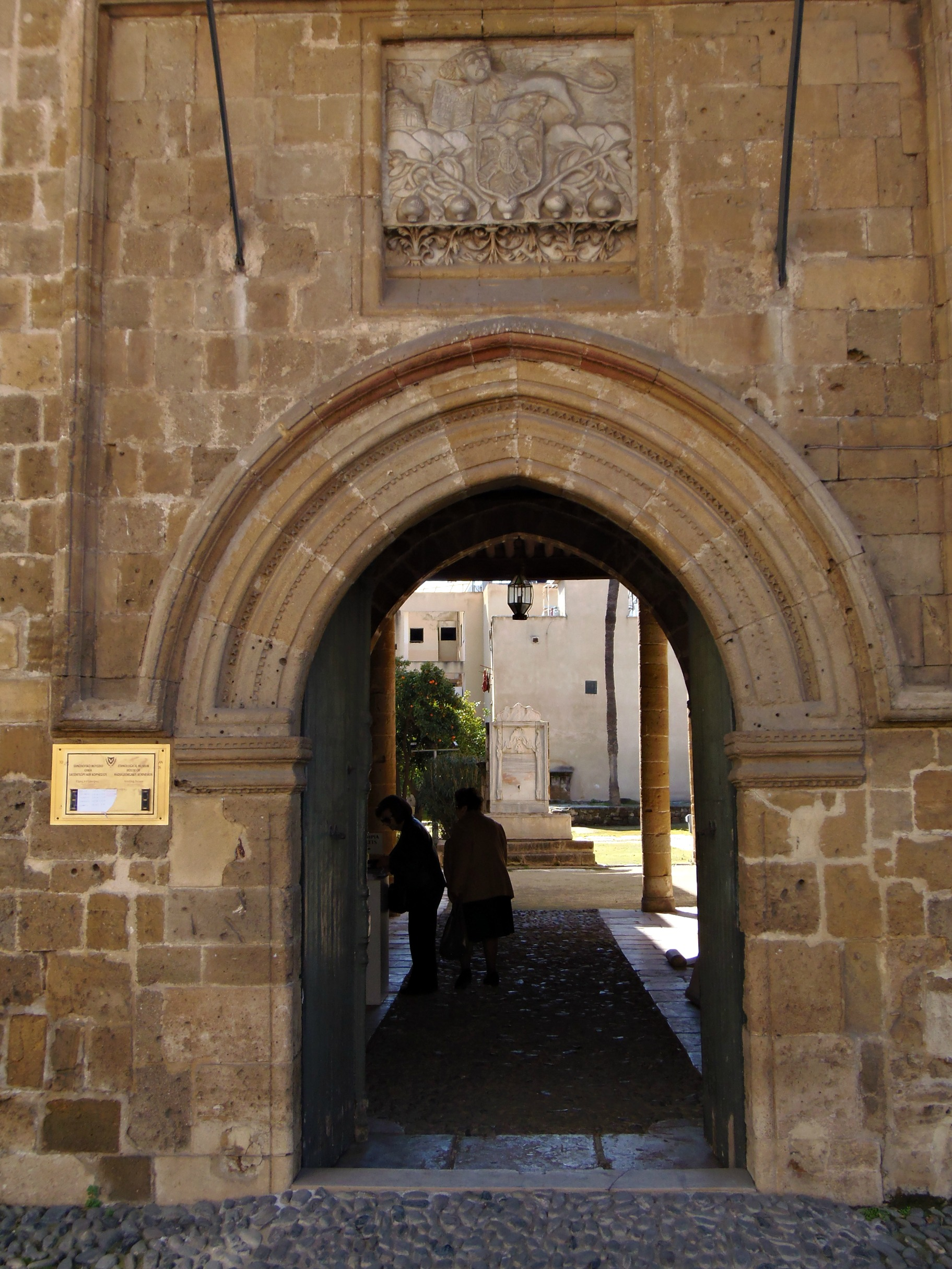 The Entrance of the Hadzhigeorgakis Kornesios'house (now Ethnographic Museum) in Nicosia, Cyprus.